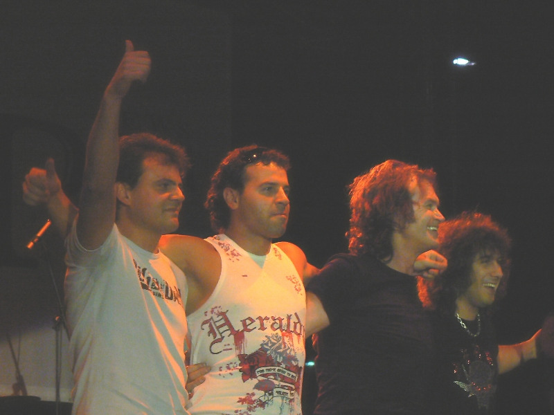 Glenn Hughes and the Bulgarian rock band B.T.R. on a free concert in Sofia, Bulgaria